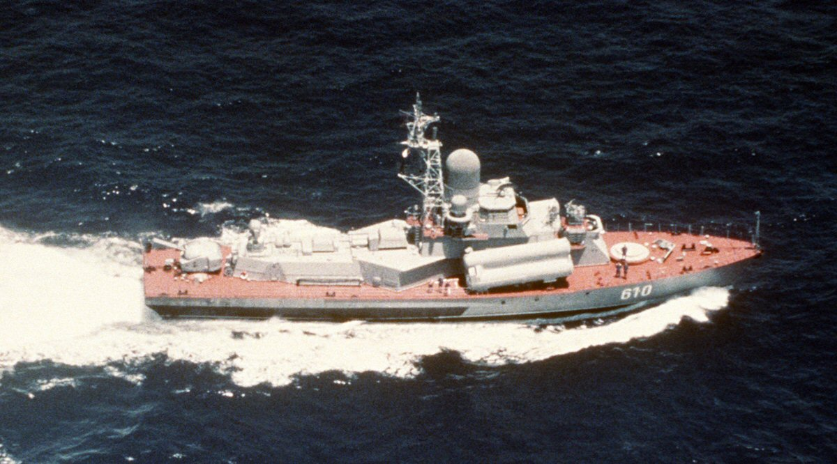 A starboard beam view of a Soviet Nanuchka-I (Project 1234) Class guided missile patrol combatant ship underway.